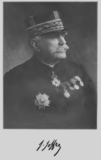 Extracted from page 9 in the link, adjusted contrast and brightness to see more of the face, although the white portion around the signature is slightly greyed out.